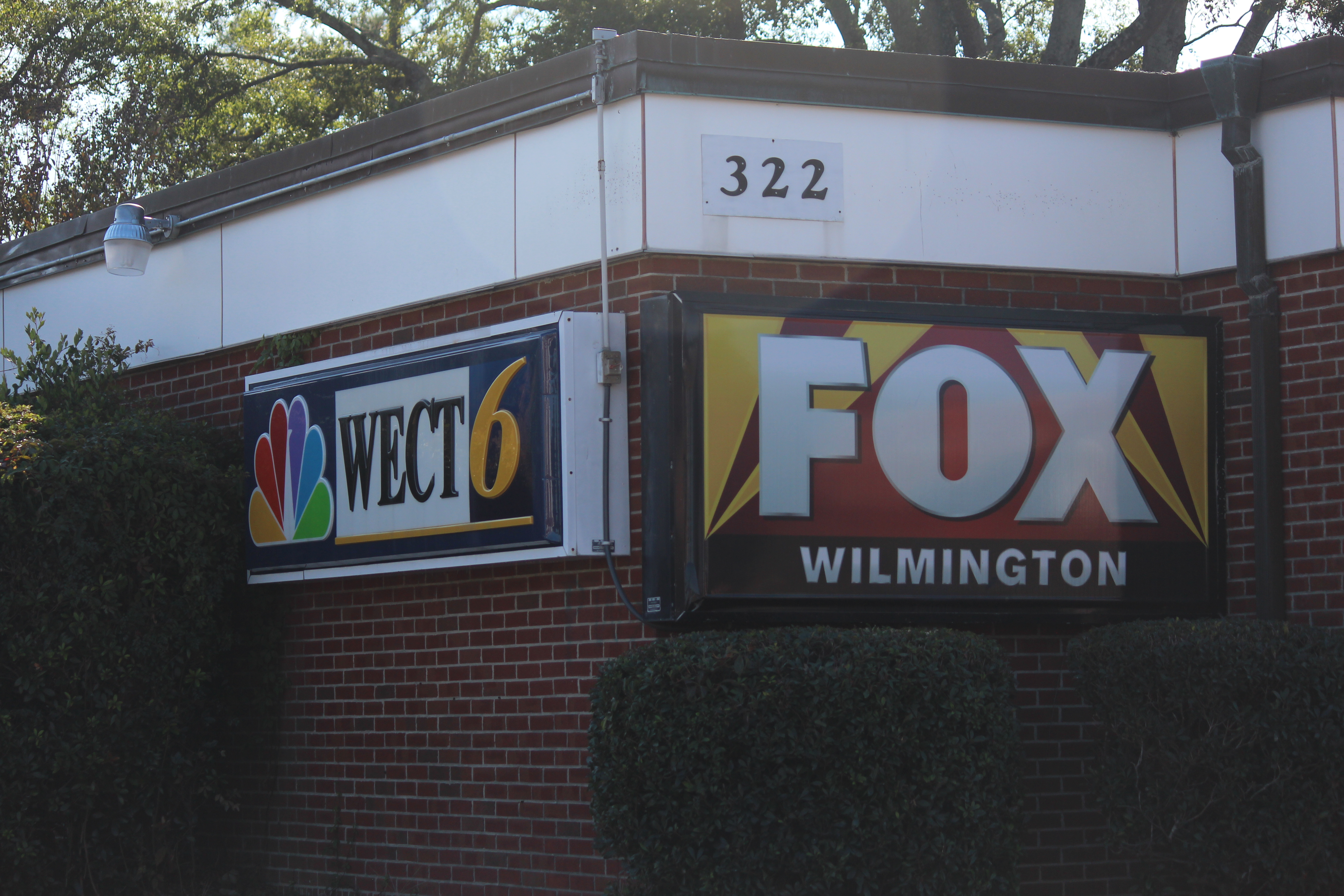 WECT, channel 6, is an NBC-affiliated television station located in Wilmington, North Carolina, USA. The station also operates Fox affiliate WSFX-TV (channel 26)